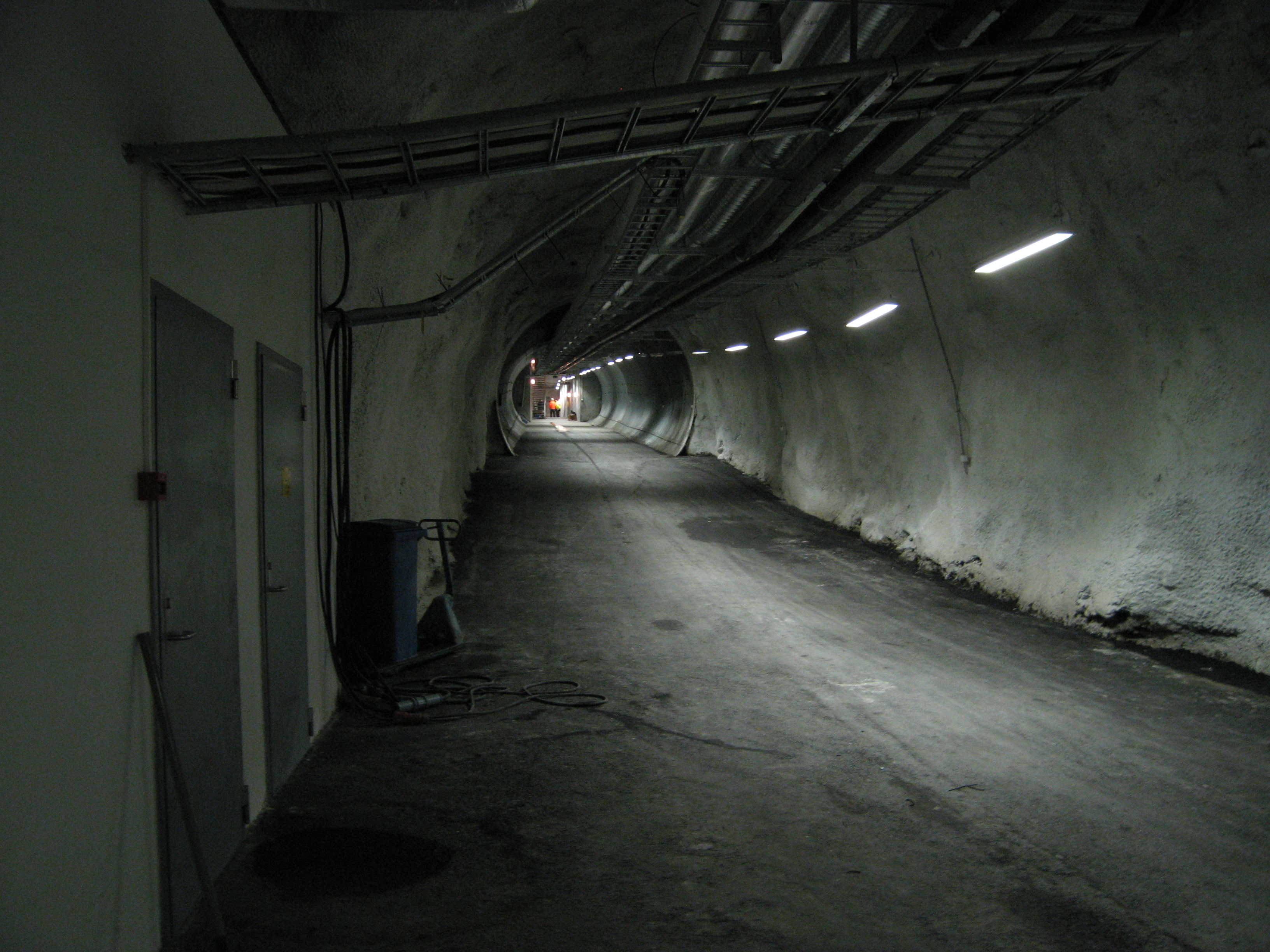 The entrance tunnel to the Svalbard Global Seed Vault. In the far end is the entrance door. To the left is the "office" section. Behind photographer is the intermediate room before the three seed vaults.